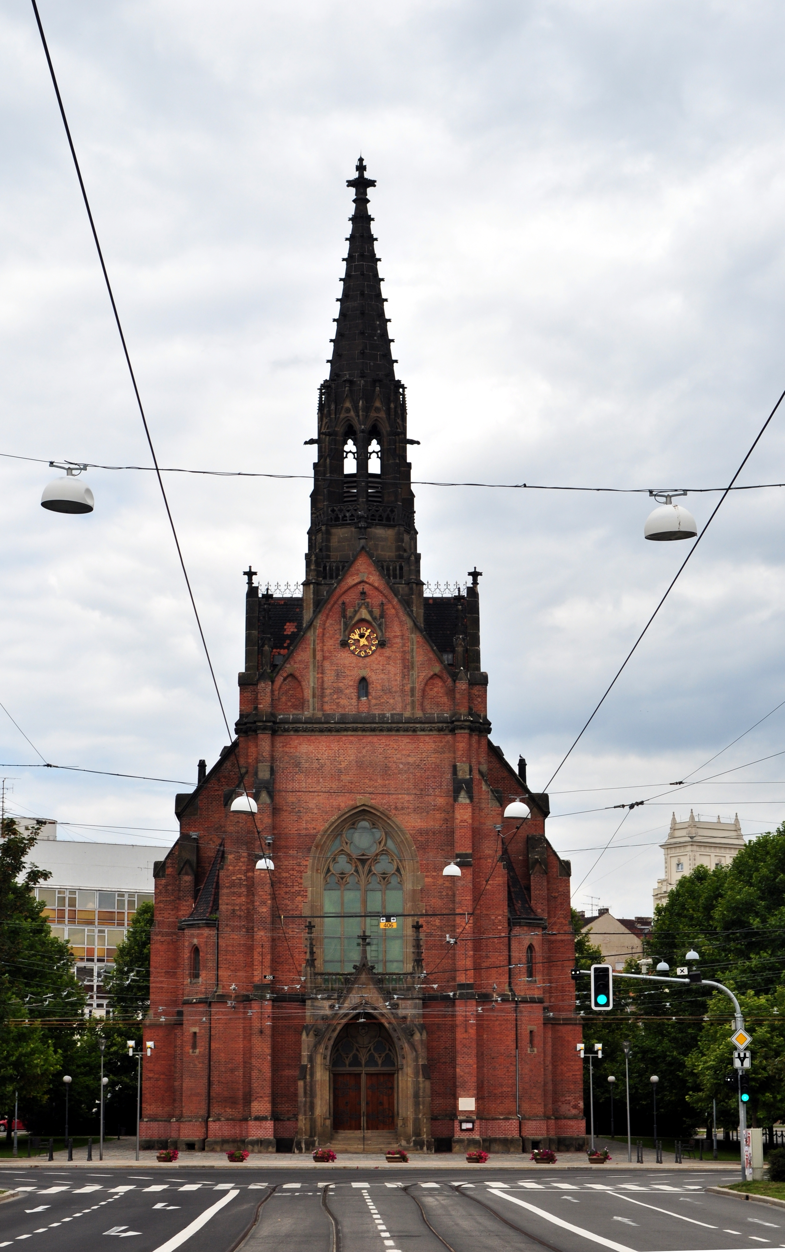 The Red church in Brno